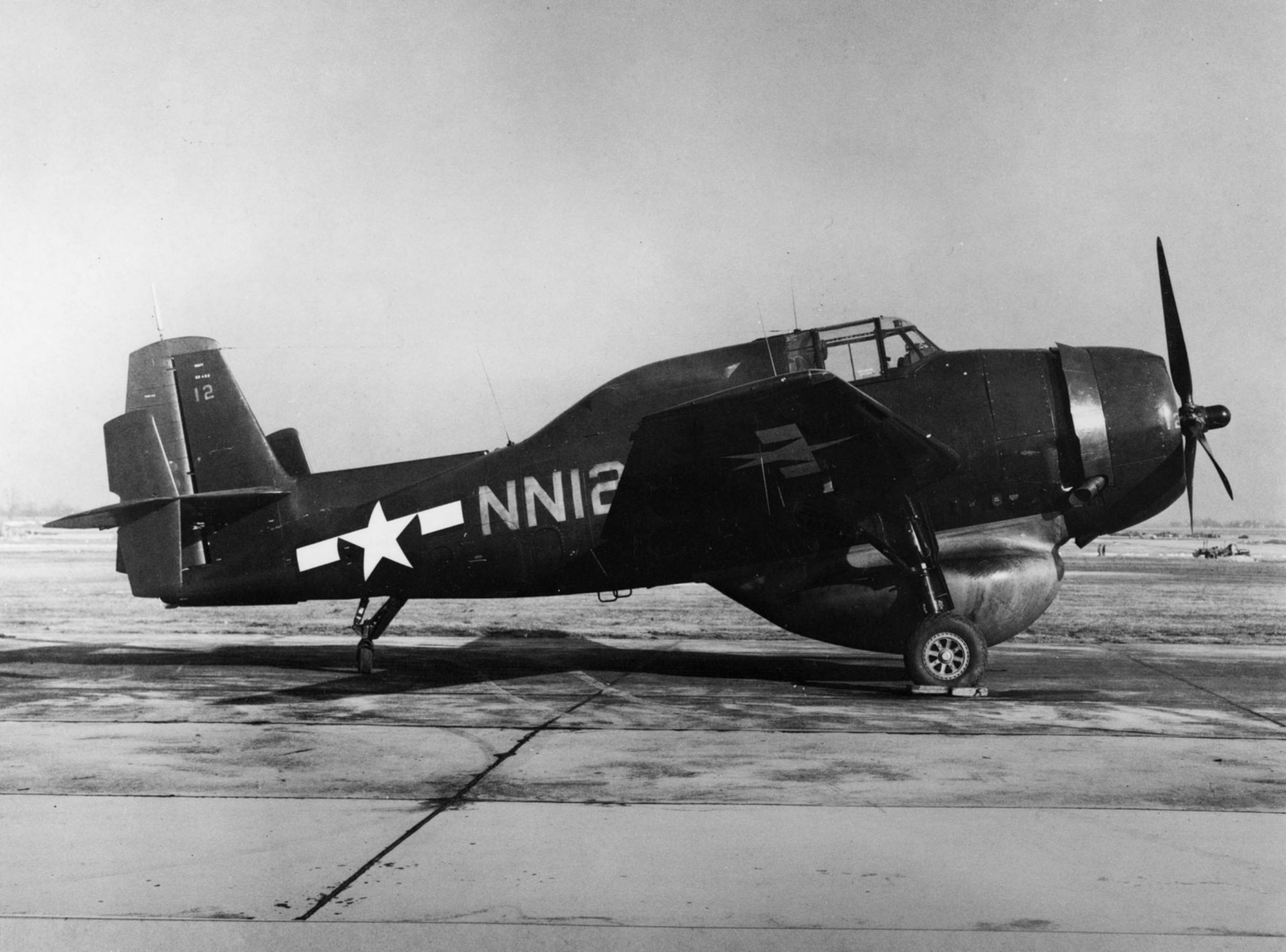 A U.S. Navy Grumman TBM-3W Avenger on the ground at Naval Air Training Center, Naval Air Station Patuxent River.